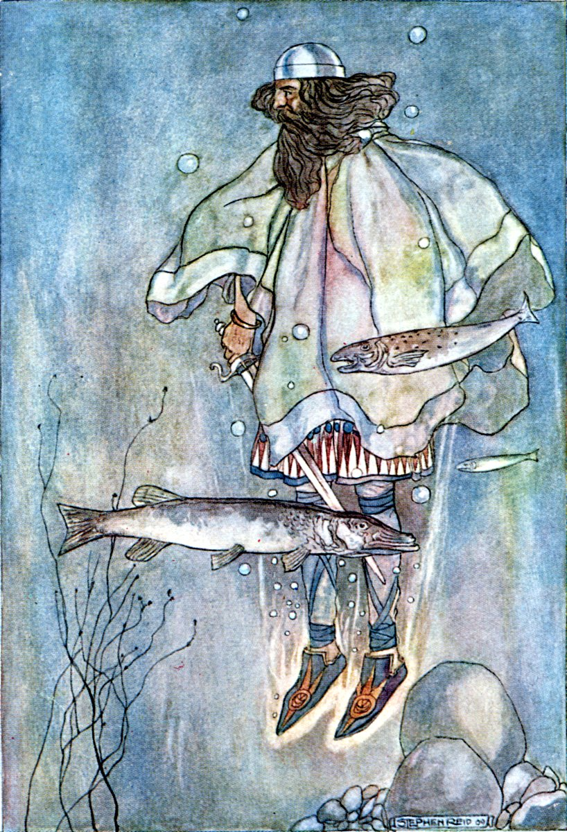 "Fergus goes down into the lake" The High Deeds of Finn and other Bardic Romances of Ancient Ireland, by T. W. Rolleston, et al, Illustrated by Stephen Reid